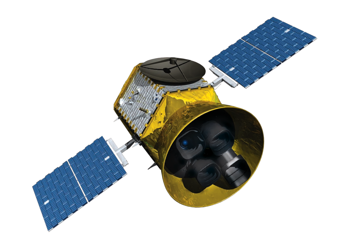 Artist concept of the Transiting Exoplanet Survey Satellite with transparent background.